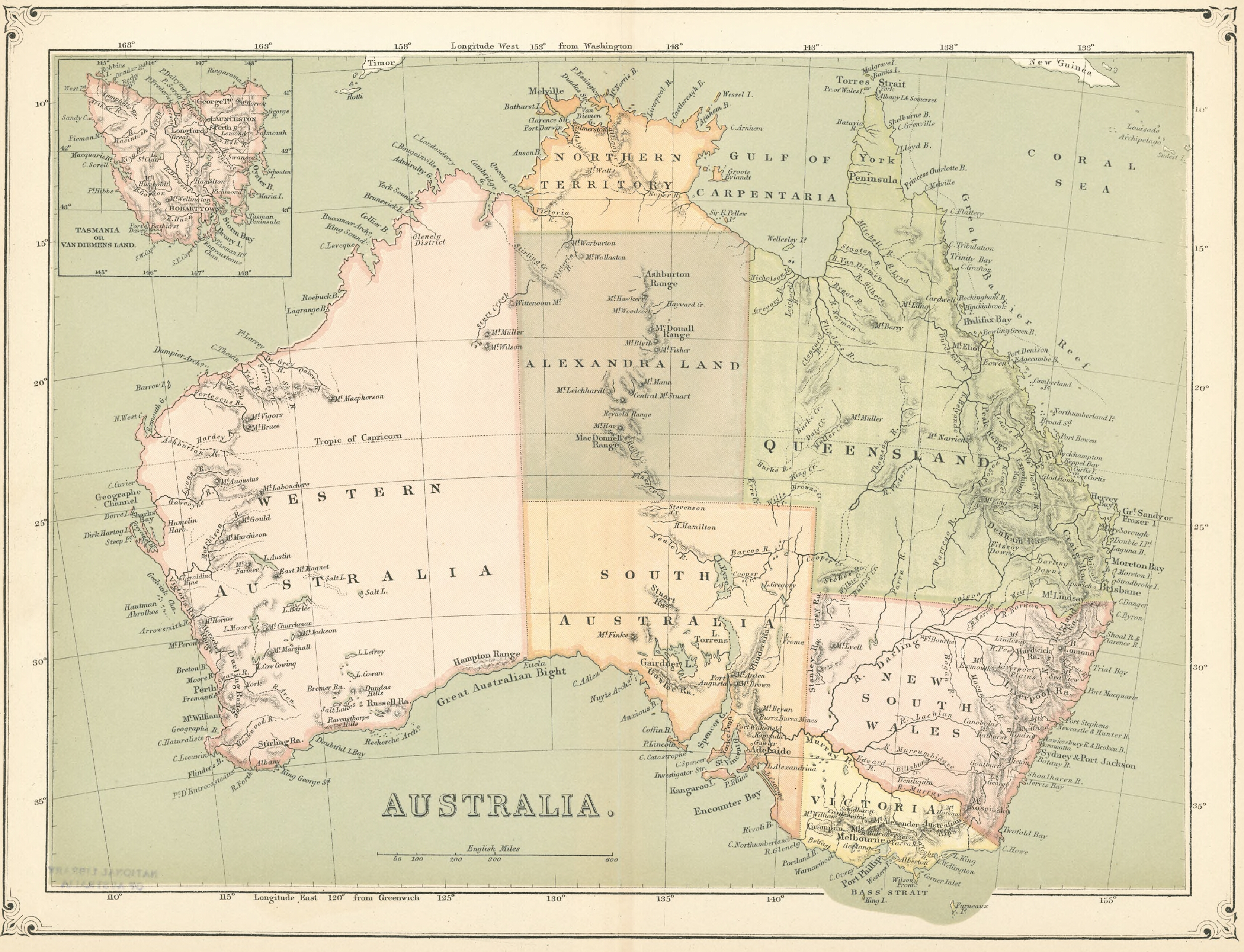 Map of Australia from 1879